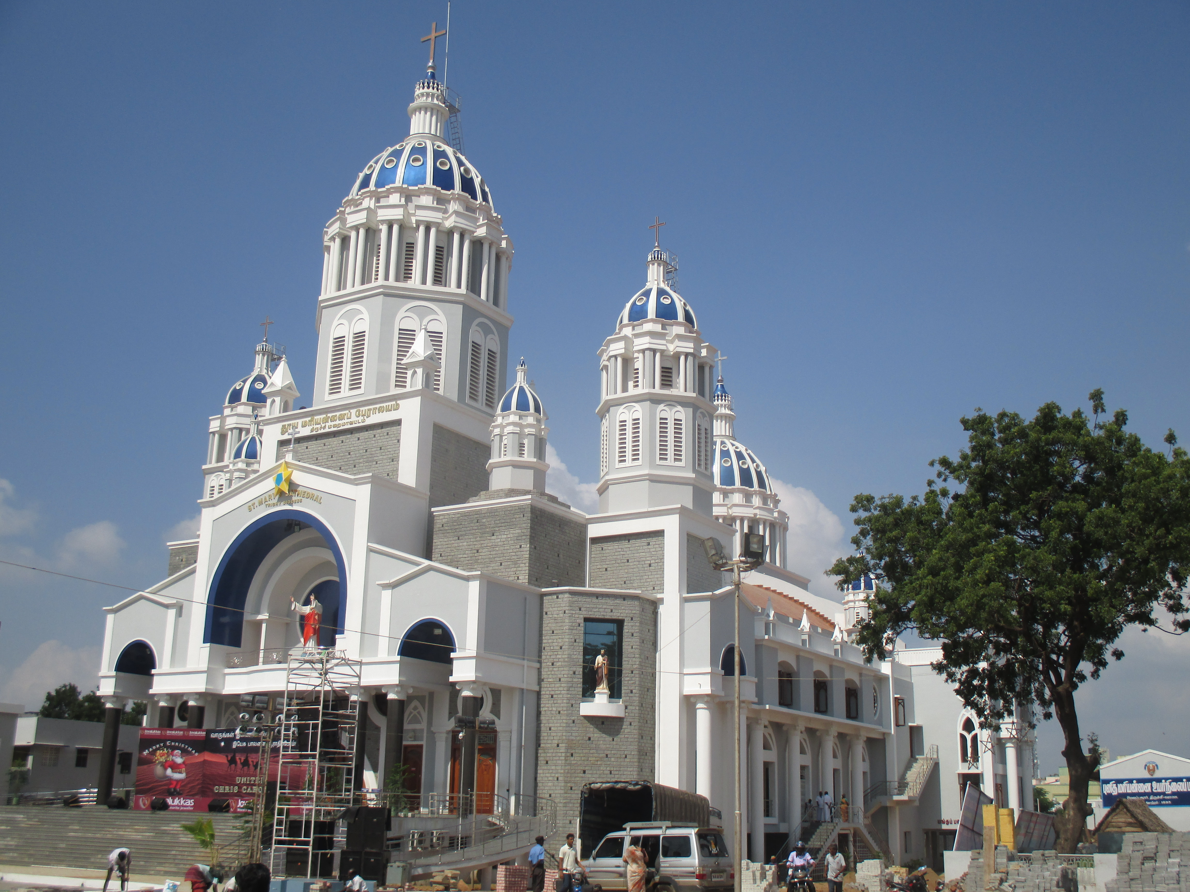 St Mary's Church - Trichy